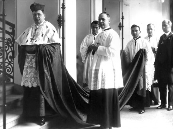 Jusztinian Györg Serédi (Hungarian Cardinal and archbishop)